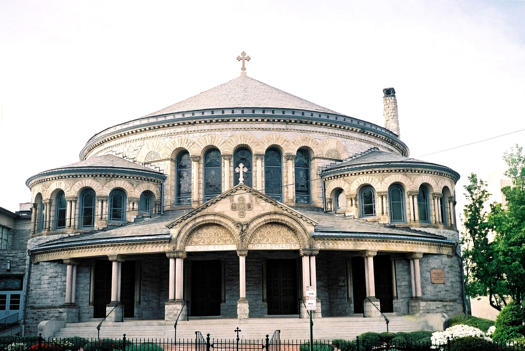 Greek Orthodox Cathedral of the Annunciation (Baltimore, Maryland), a parish of the Metropolis of New Jersey of the Greek Orthodox Archdiocese of America. This circular stone church is one of the most unusual buildings in Baltimore. Designed by Charles E. Cassell in Romanesque style with Byzantine touches, it was built for the Associate Reformed Church in 1889. Left vacant in 1934 and slated to be razed for a filling station, the church was saved through the intervention of the Greek Orthodox congregation, which purchased it in 1937. A Greek inscription, meaning "House of God, Gateway to Heaven" (Gr.: "ΟΙΚΟΣ ΘΕΟΥ - ΠΥΛΥ ΟΥΡΑΝΟΥ"), was carved into the stone above the entrance. In 1938 the church was consecrated in the Orthodox tradition by Archbishop Athenagoras of the Archdiocese of North and South America. Picture taken on Holy Thursday, April 20, 2006.